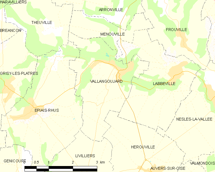 Map of French municipality Vallangoujard